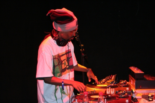 The Hip Hop artist Gee Bayss